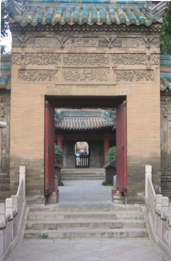 A gateway inside the Great Mosque of Xi'an. Note the Arabic inscriptions. Photograph taken by Nat Krause in July, 2005.